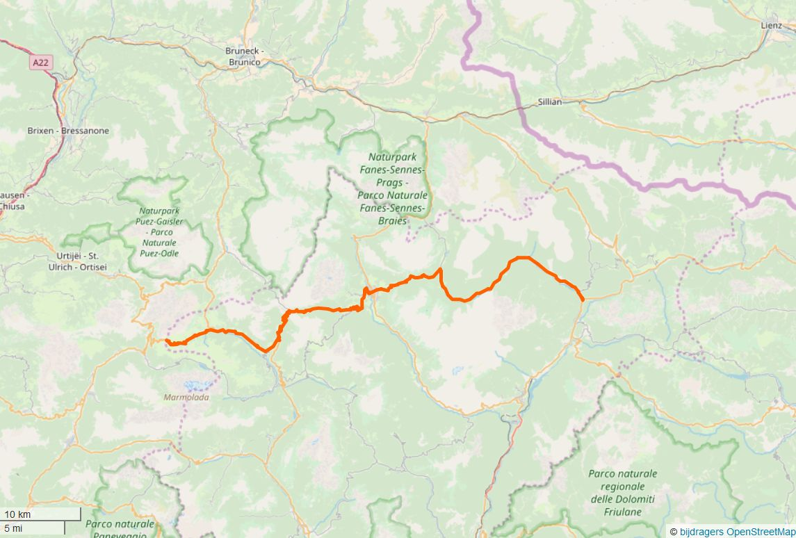 Route of Strade Regionale SR48 in Veneto (Italy). OpenStreetMap relation: "Strada Regionale 48 delle Dolomiti (1754082)" OpenStreetMap cut-out (or derivative work based on it): without further description This cut-out may be incomplete, and may contain errors, or may be obsolete. Don't rely solely on it for navigation. Seek for the present state in original context on the OpenStreetMap wiki page